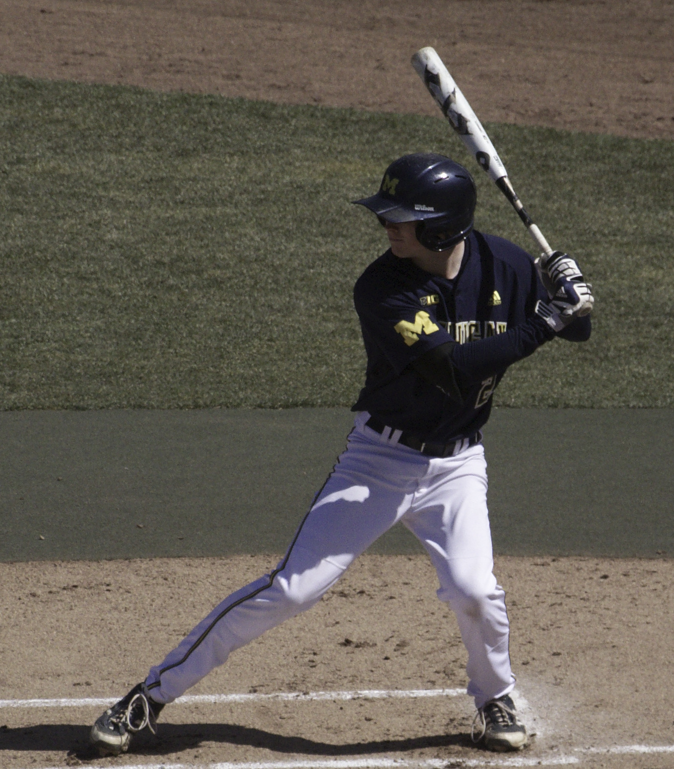 Jacob Cronenworth bats for Michigan during a 2013 game against Michigan State at Drayton McLane Baseball Stadium at John H. Kobs Field.